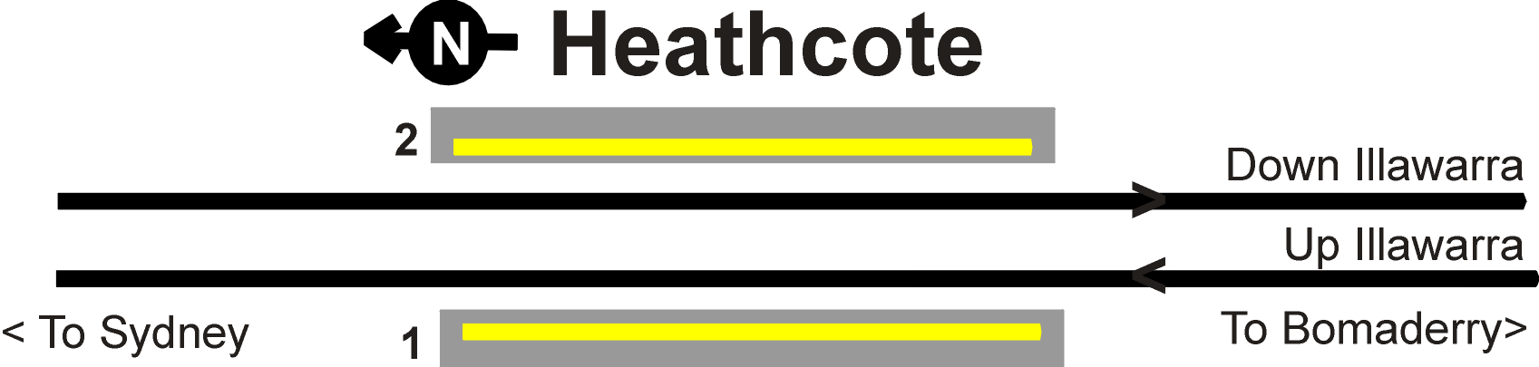 Track layout at Heathcote railway station